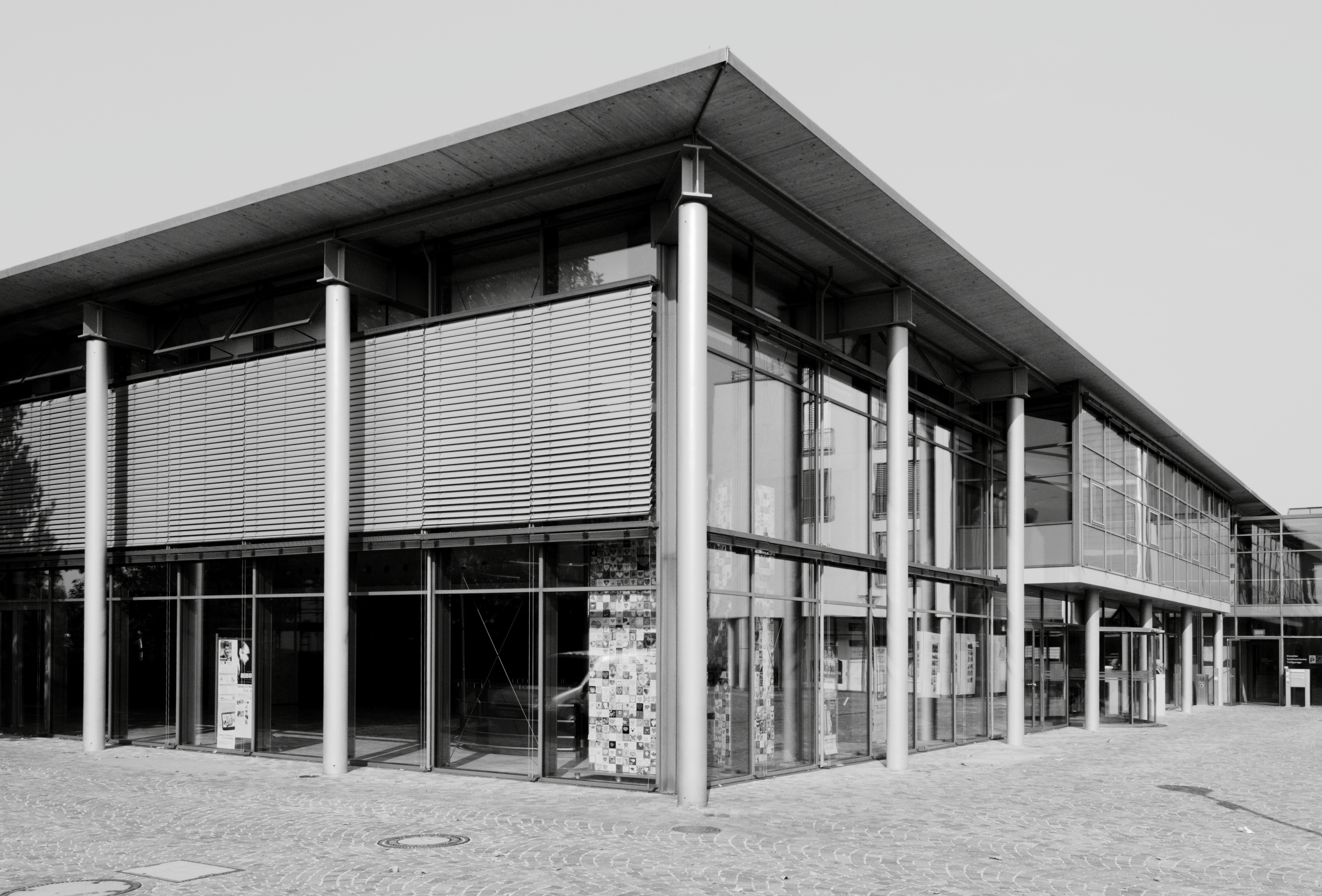 Freiberg am Neckar, Prisma event hall